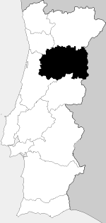 Former province of Beira Alta, Portugal Created by User:Brian Boru in September 2005, based on a map created by Jorge Candeias.